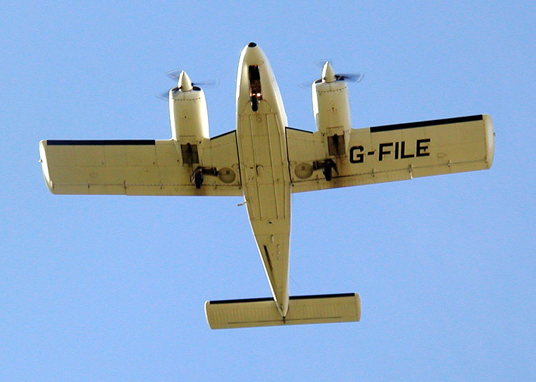 Piper Seneca PA-34 at Bristol Airport, Bristol, England.